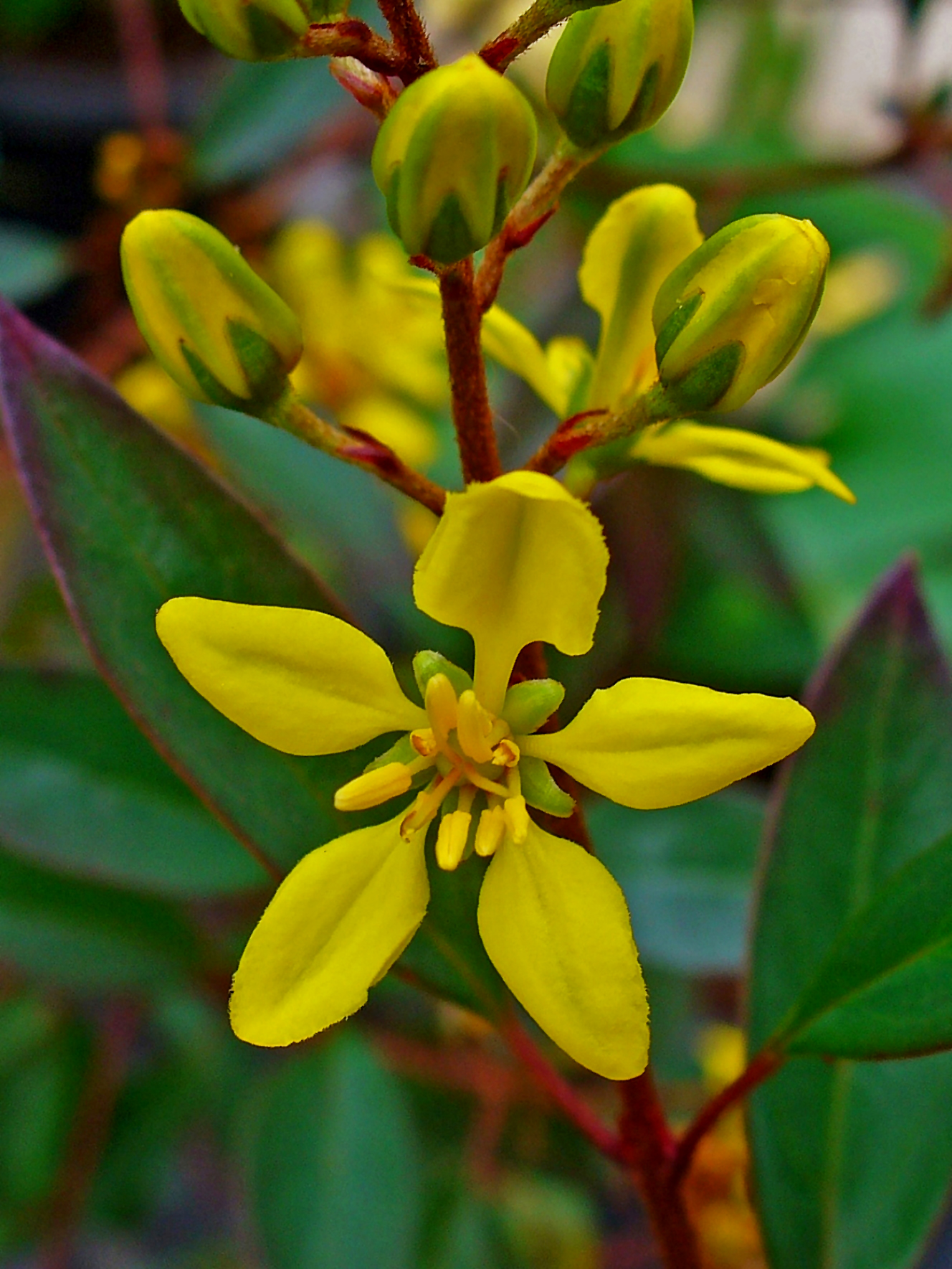 Galphimia glauca, Malpighiaceae, Spray of Gold, flower.